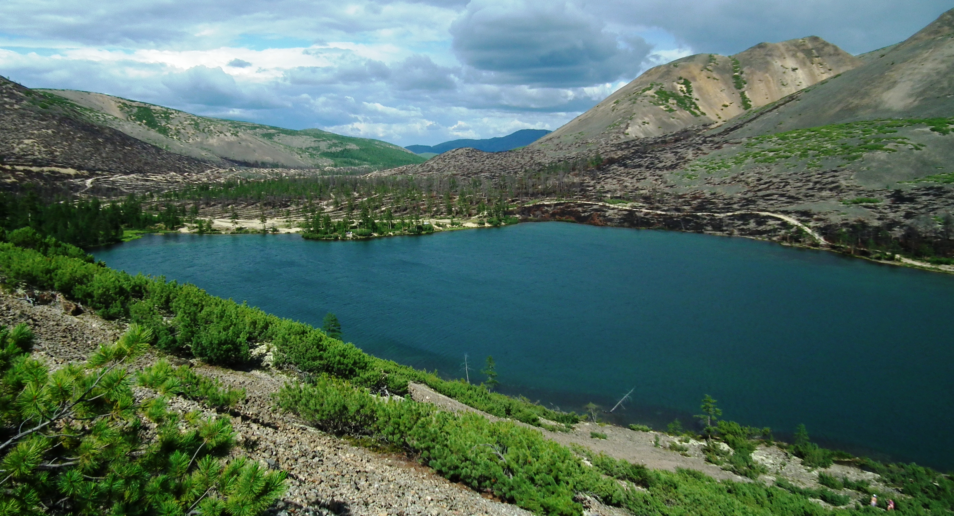 Blue Lake, with Pinus pumila, Magadan Oblast, Russia